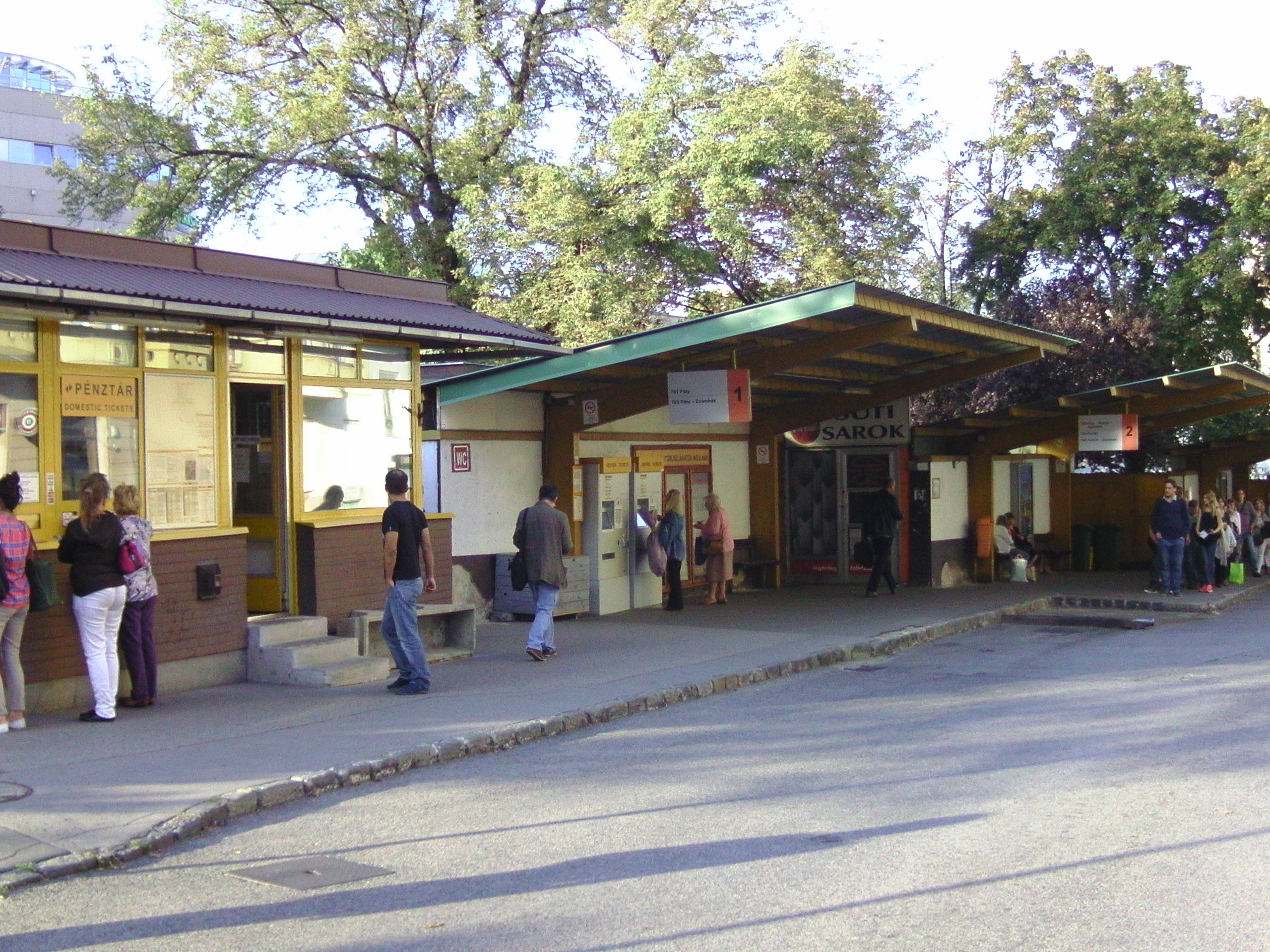 Széna tér Bus Station. - Budapest, II. kerület, Víziváros városrész